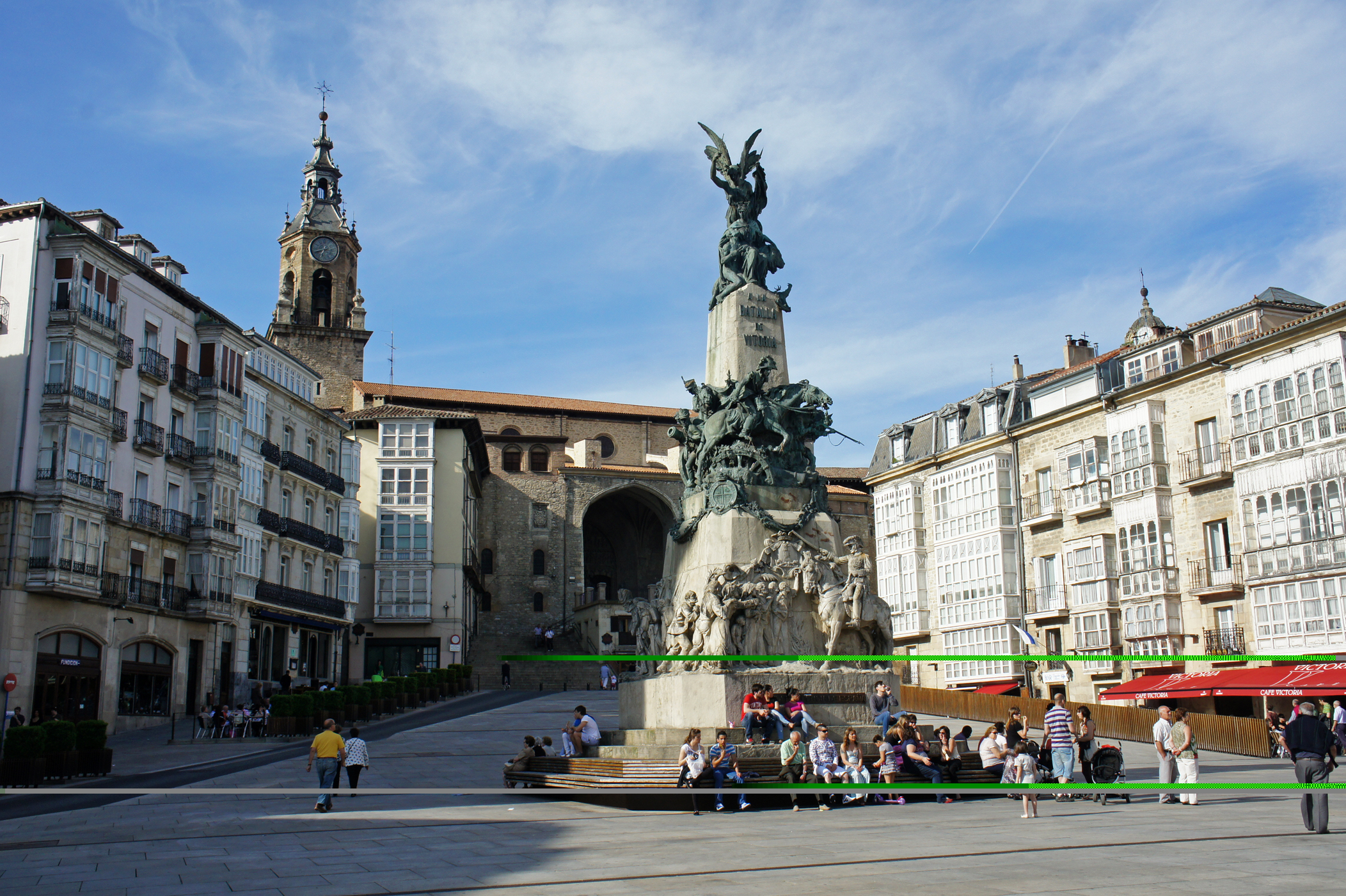 Plaza de la Virgen Blanca (White Virgin Square), Vitoria-Gasteiz, Basque Country, Spain.